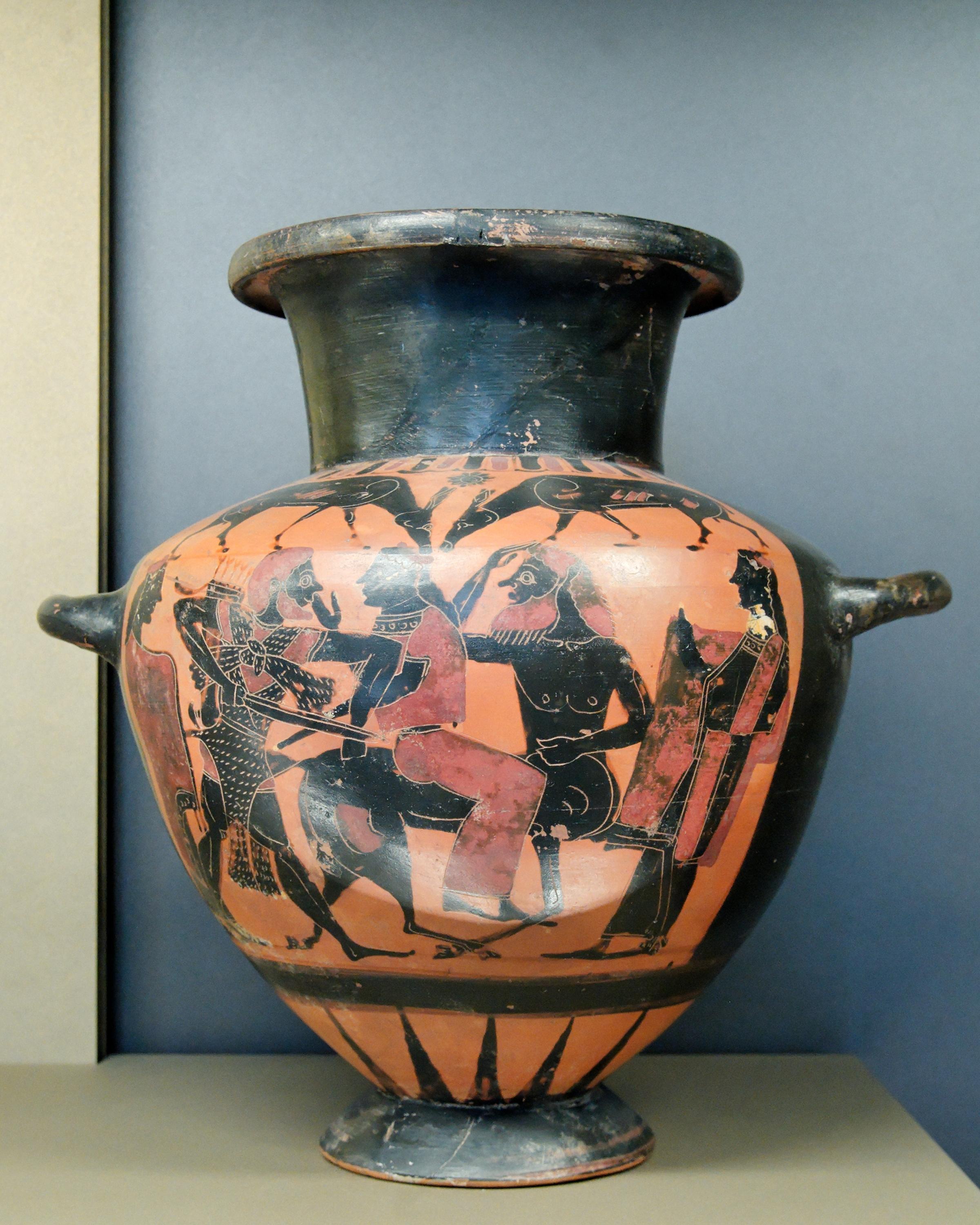 Heracles, Deianira and Nessus. Attic black-figured hydria, ca. 575–550 BC.